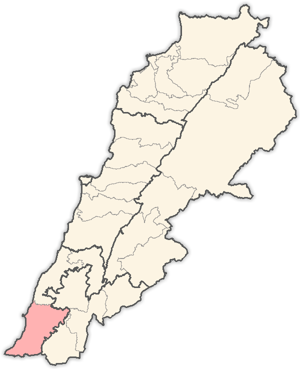 Map of districts in Lebanon, highlighting the Tyrus District